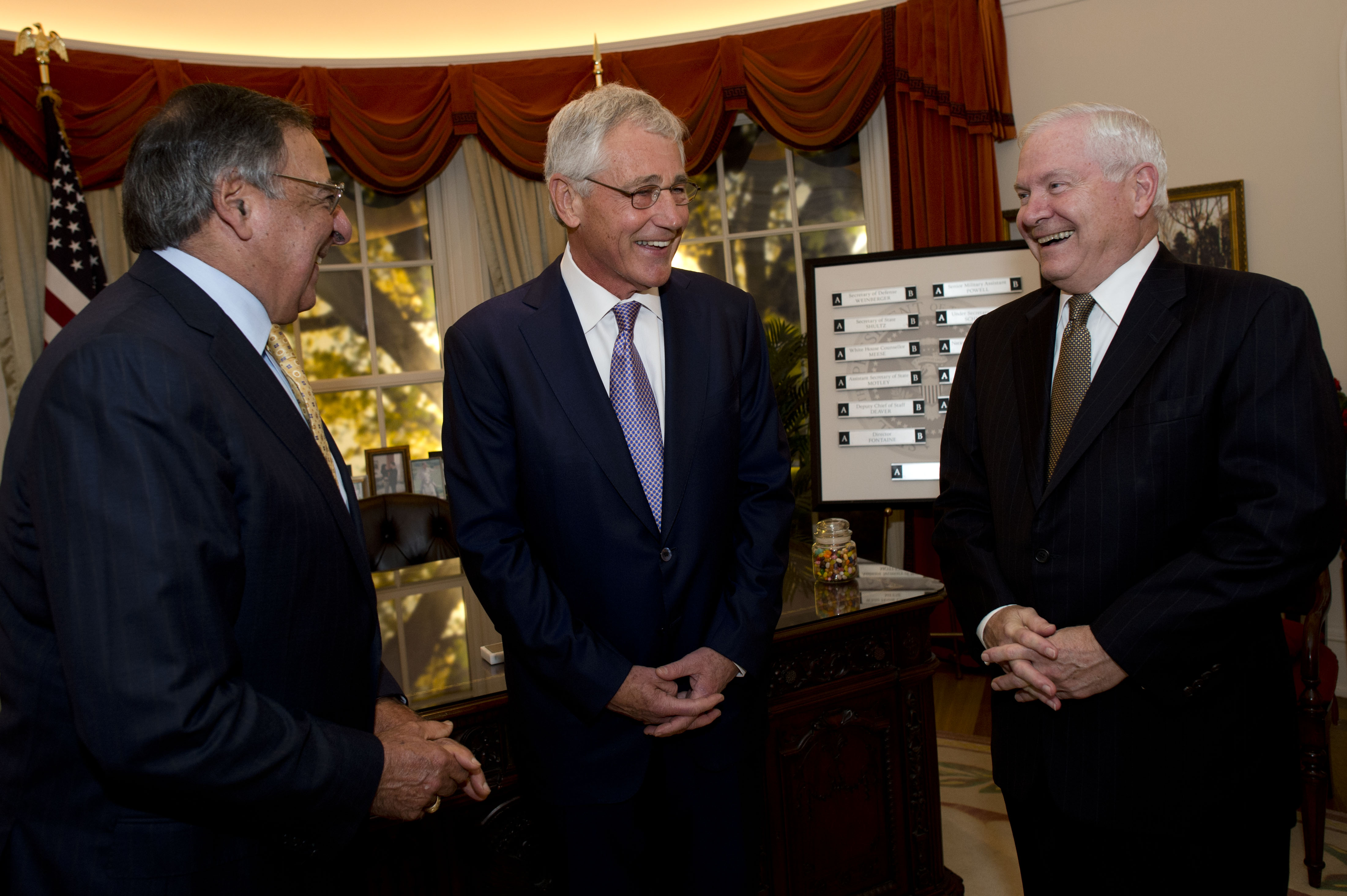 Secretary of Defense Chuck Hagel, center, speaks with former Secretary of Defense Robert Gates, right, and former Secretary of Defense Leon Panetta at the Peace Through Strength Forum and Awards dinner at the Ronald Reagan Presidential Foundation and Library in Simi Vally, Calif., Nov. 16, 2013.